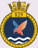 Crest of 829 Naval Air Squadron, Fleet Air Arm, Royal Navy.